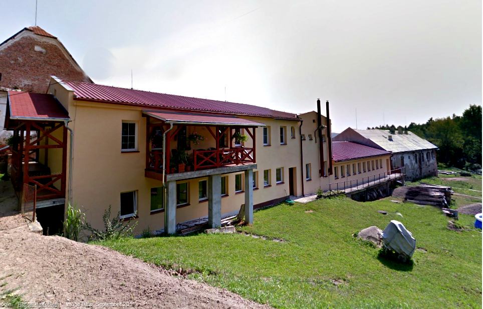 Carpentery